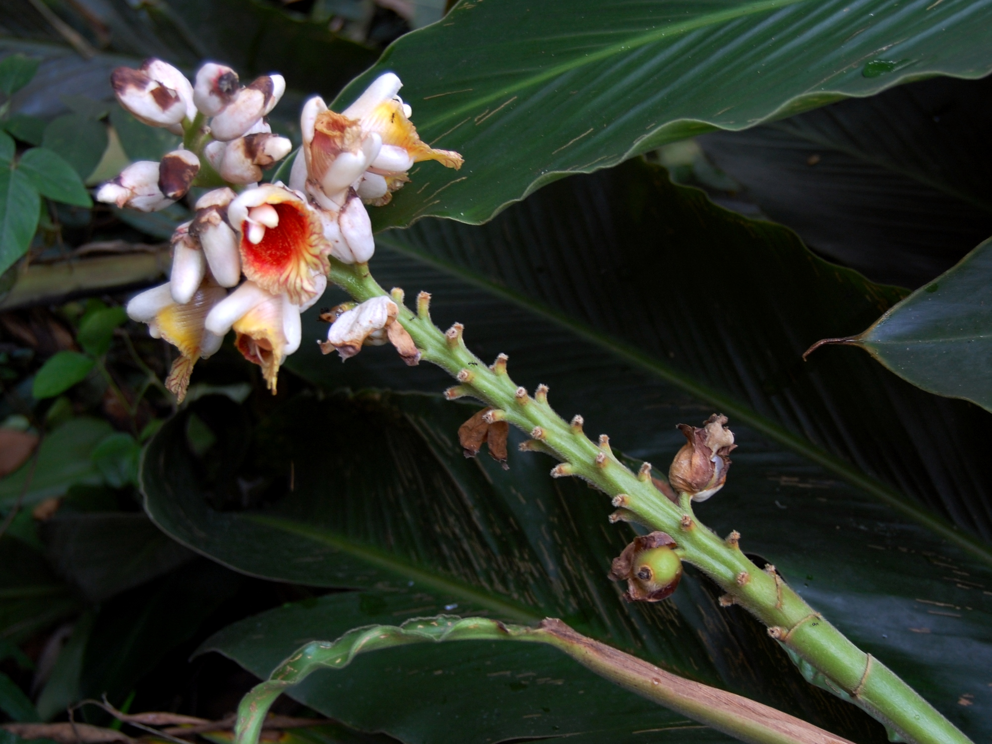 Alpinia (Catimbium) malaccensis; flowering raceme. From Bogor, West Java, Indonesia.